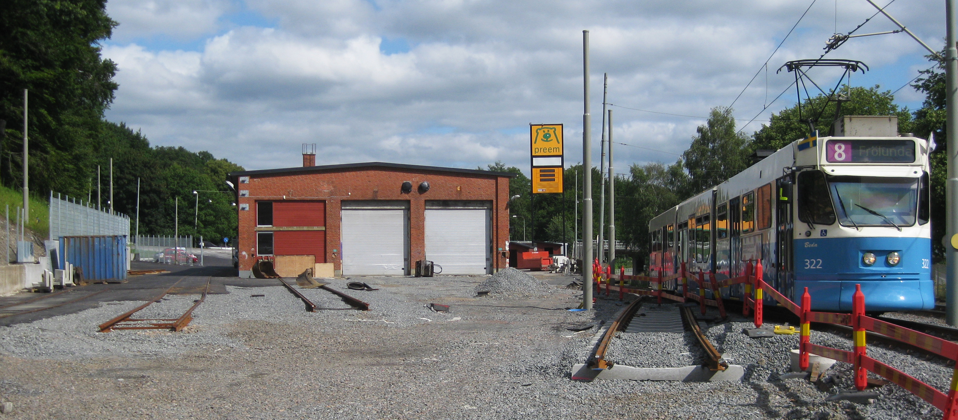 "Vagnhallen Slottsskogen" in Göteborg, Sweden.